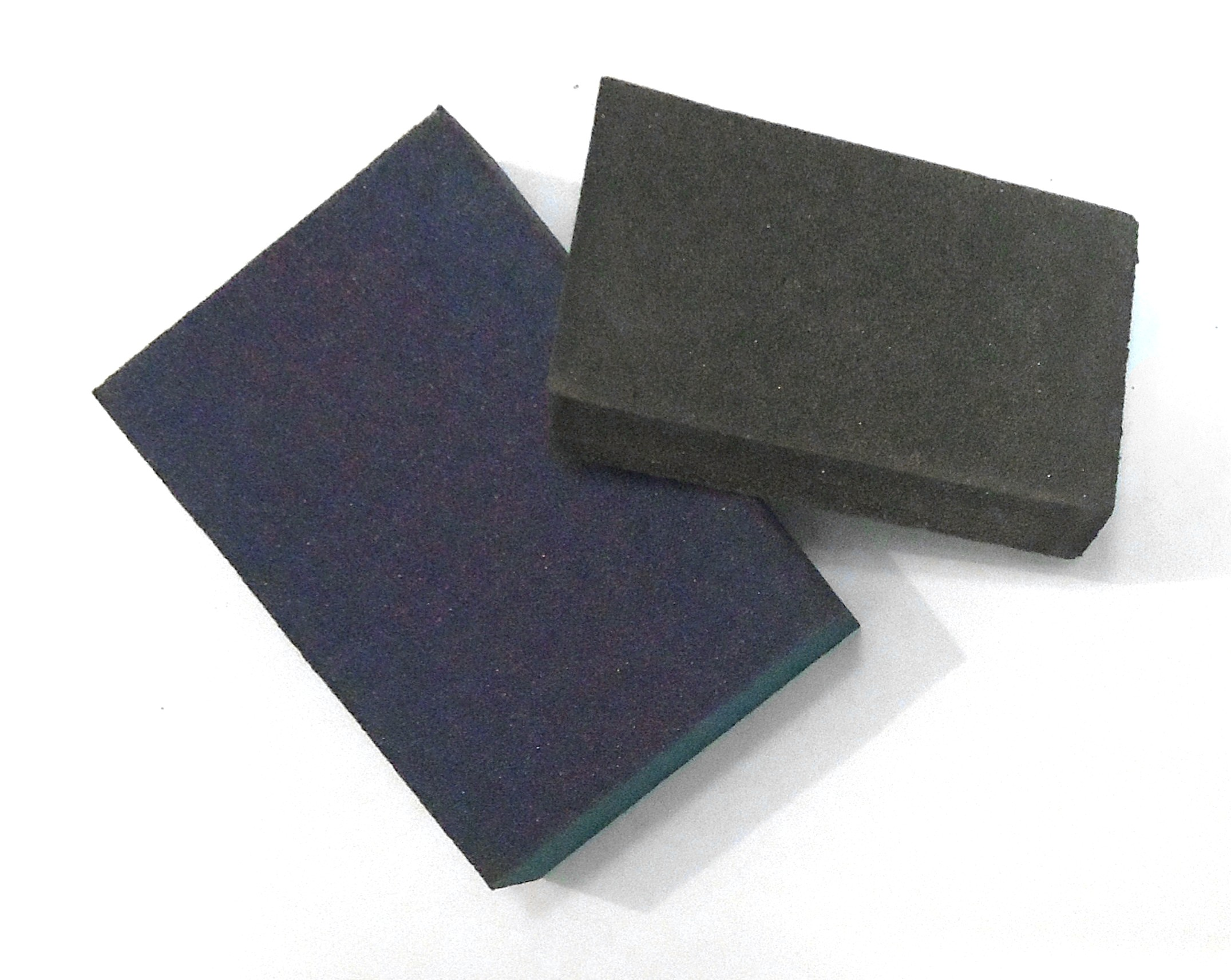 Abrasive sponges, also known as sanding sponges, sanding blocks and abrasive blocks. Mauro Cateb, Brazilian jeweler and silversmith.